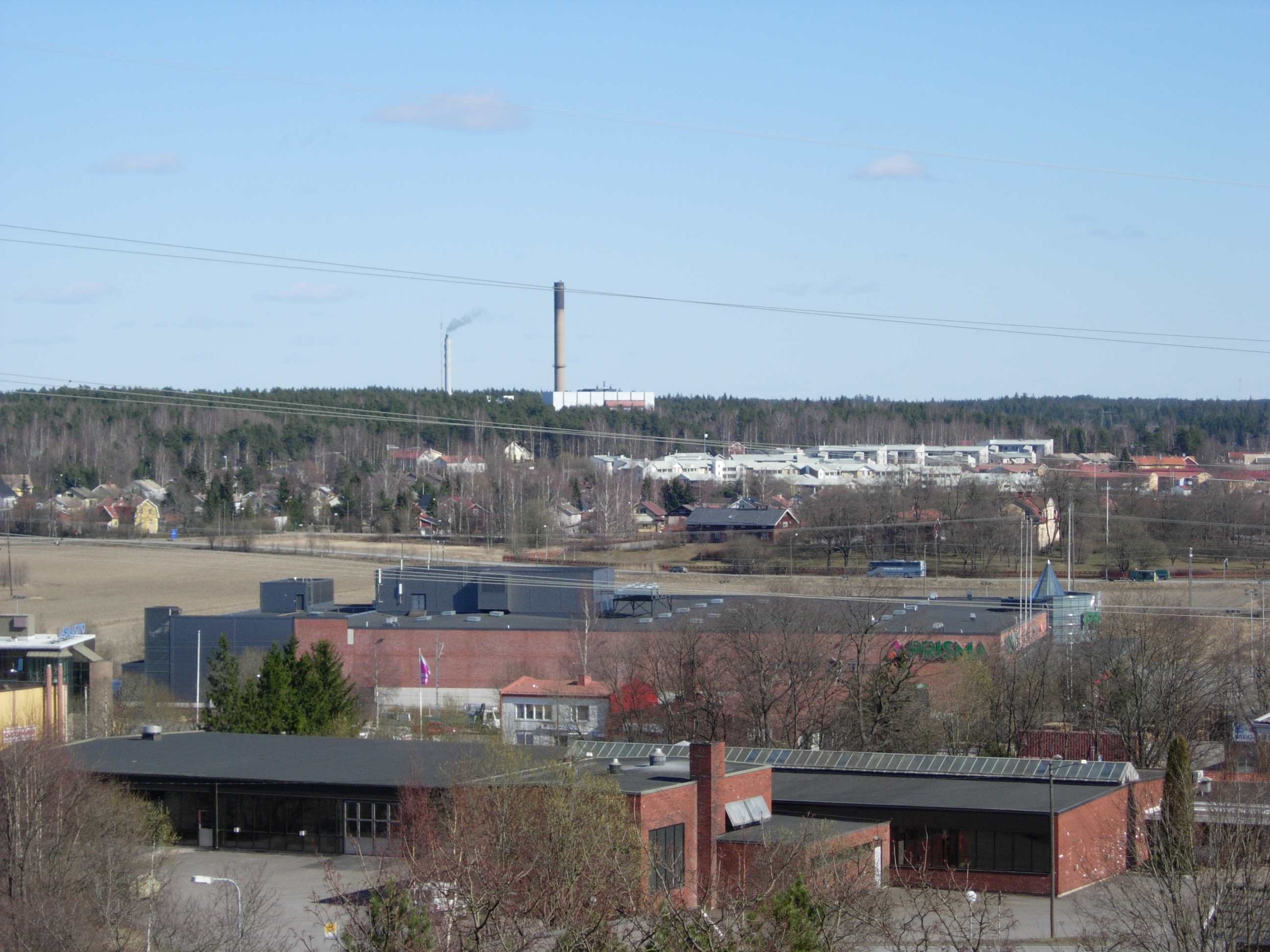 Räntämäki as seen from Kastu, Taskulantie 1.